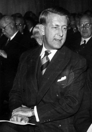 Photographic picture of Bertil Ohlin at Arosmässan in Västerås late 1950:ies